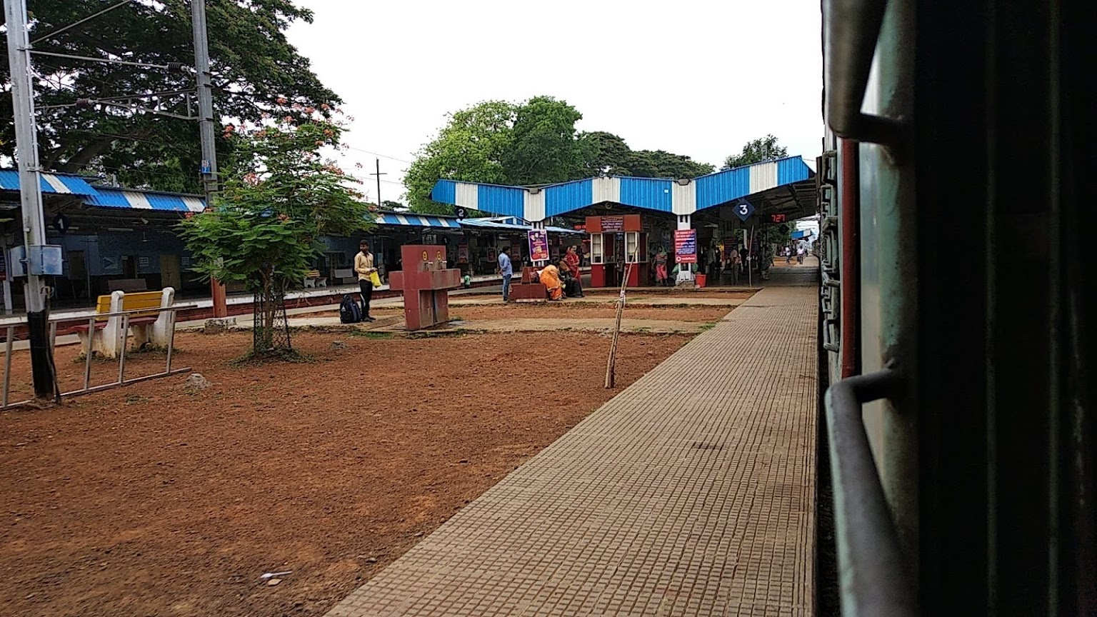 This is the Picture of Balugaon railway station